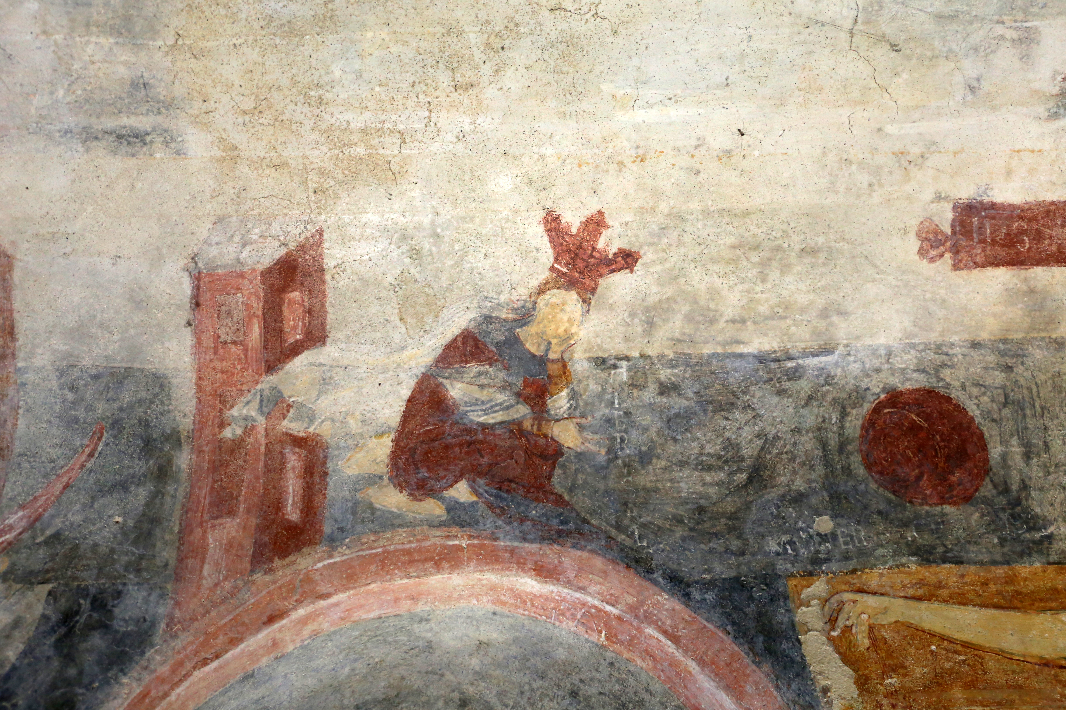 Epifanio Crypt